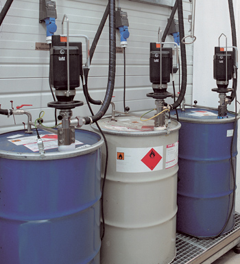 Drum pump for complete drum drainage